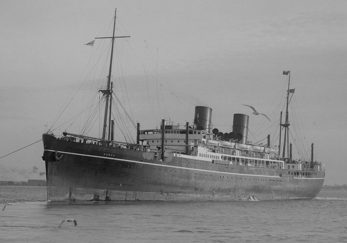 Corfu